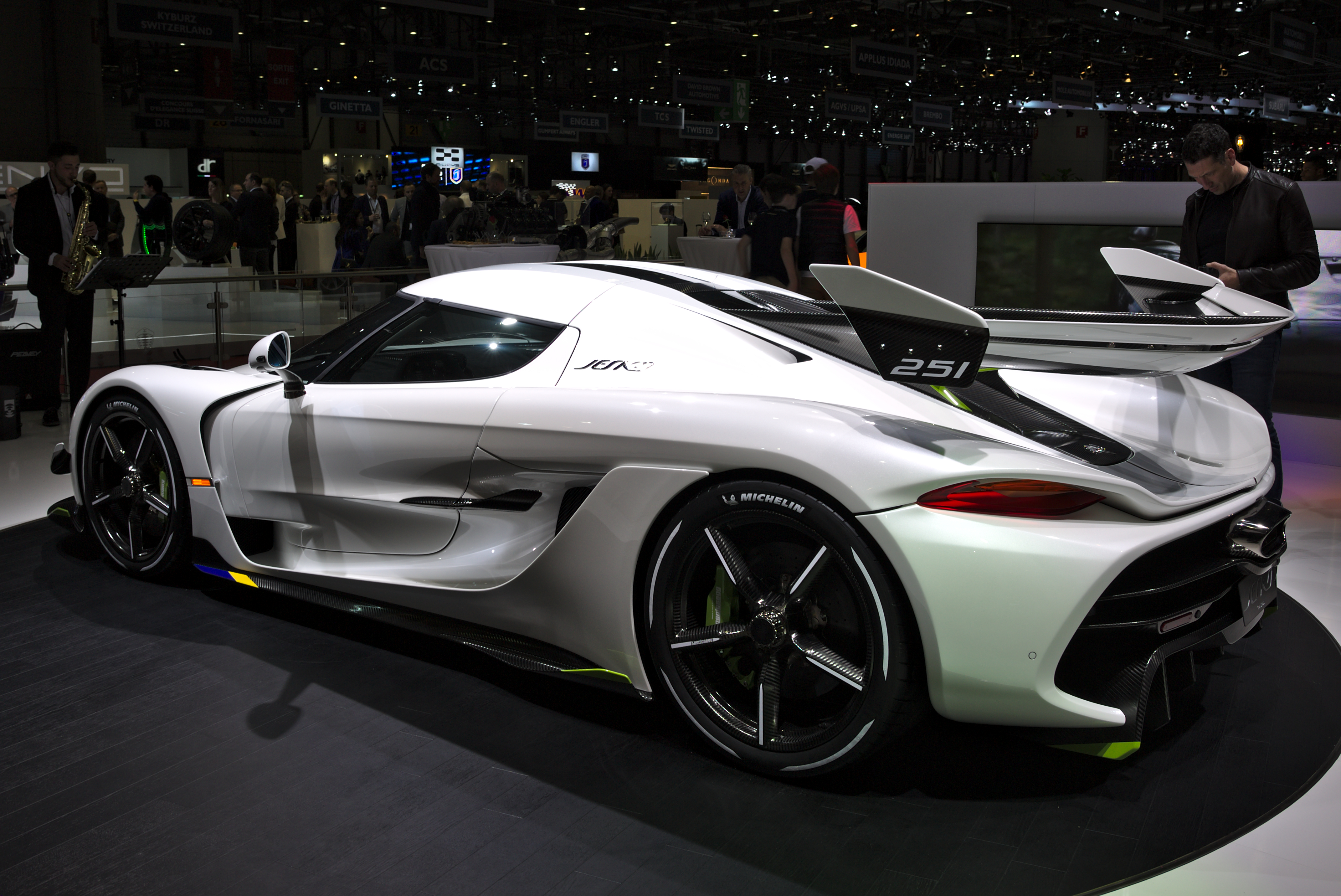 Koenigsegg Jesko at Geneva Motor Show 2019